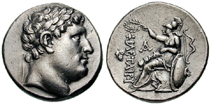 Kings of Pergamon. Attalus I. 241-197 BC. AR Tetradrachm (17.03 gm). Laureate head of Philetairos right Athena enthroned left, holding wreath and spear, left elbow resting on shield; grape cluster outer left, A above knee, bow outer right. Westermark Group IV B (V.LXV/R.2); SNG von Aulock 1358. Lightly toned, good VF.